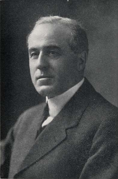 Fred J. Douglas (New York Congressman)